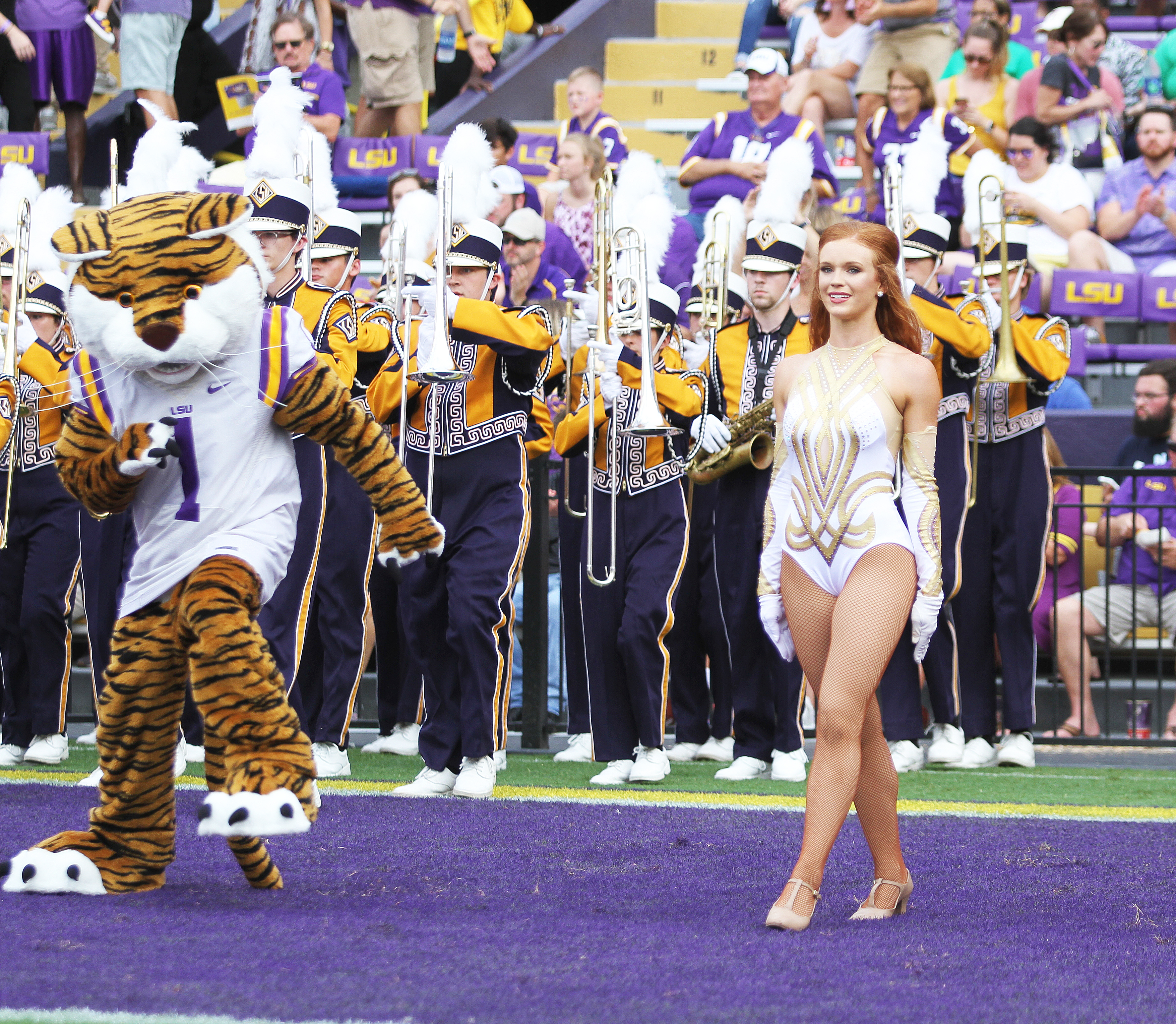 SELU vs LSU at Tiger Stadium, September 8th 2018, Tammy Anthony Baker, Photographer, Devonte Williams Zeke Walker Southeastern Lions Football